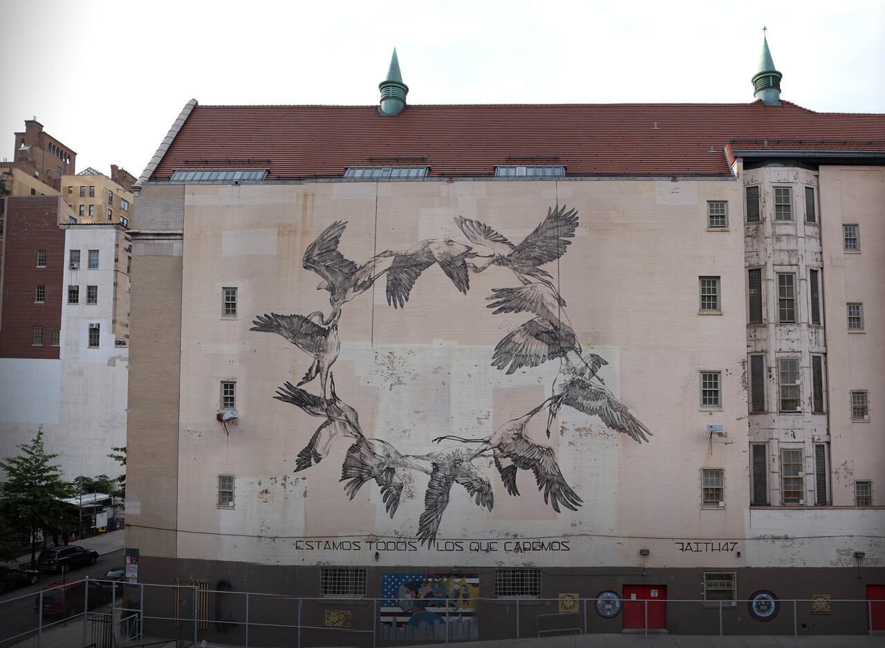 Faith47 street art mural in Haarlem